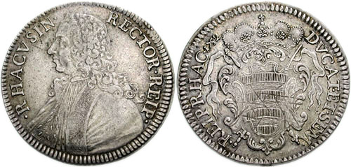 Dalmatia, Ragusa (nowdays Dubrovnik. Republic. 1526-1814. AR Tallero (42mm; 28,46 g; 12h). GB, mintmaster. Dated 1752. Draped bust left Crowned coat-of-arms; GB below. Davenport 1639; KM 18.